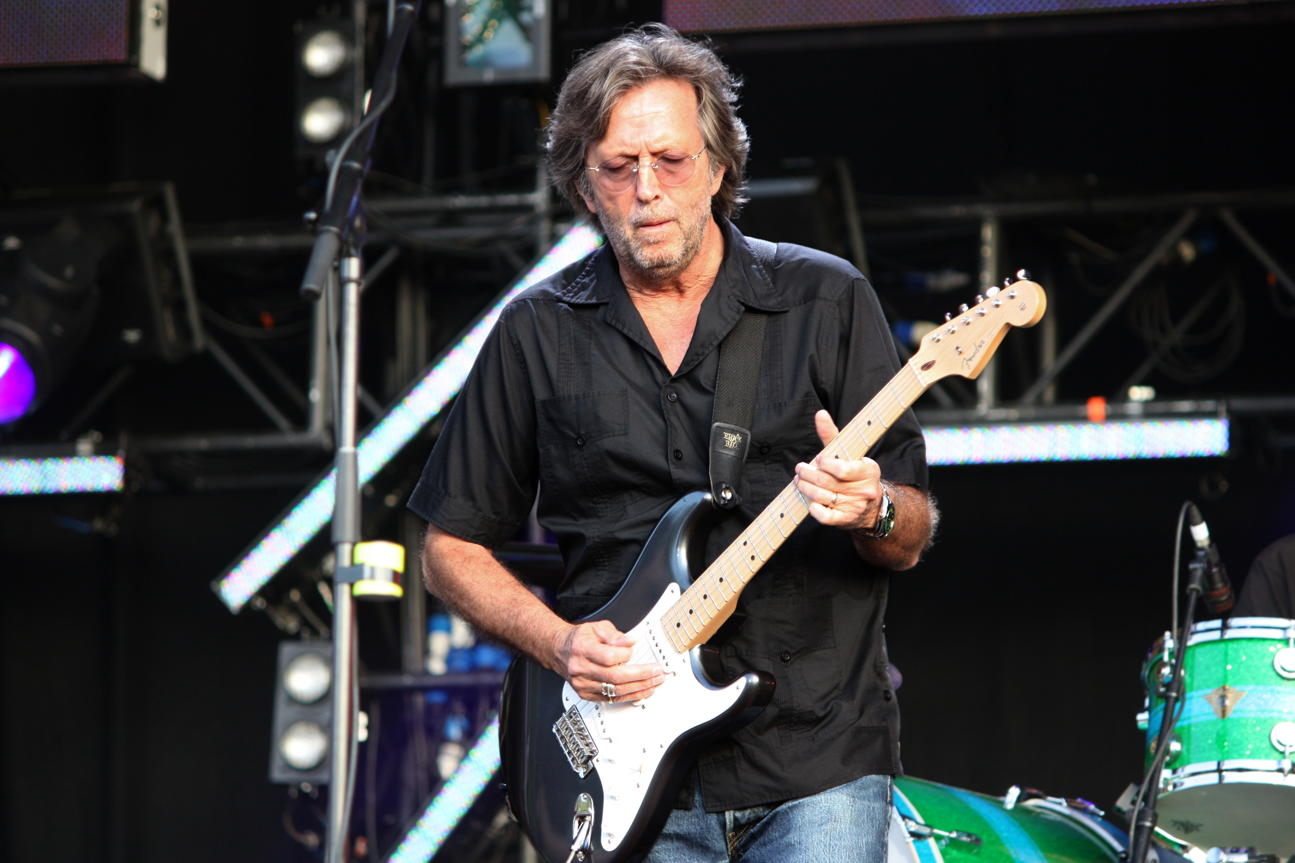 The legendary Eric Clapton playing live at the Hard Rock Calling concert on June 28, 2008 in Hyde Park, London